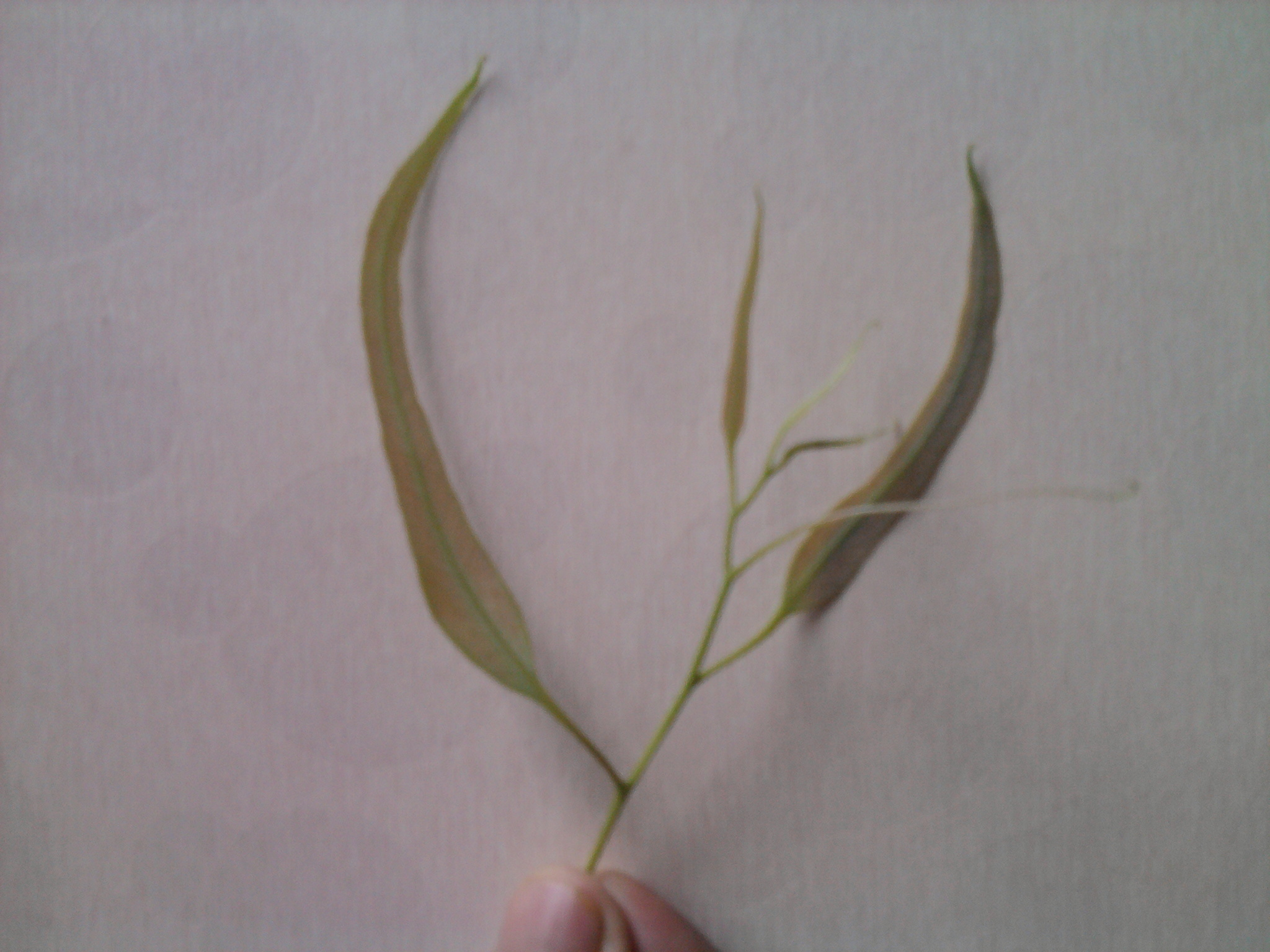 Eucalyptus Leafs